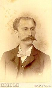 This is a photo of architect Bernard Vonnegut, FAIA, (1855-1908), co-founder of the Indianapolis architectural firm of Vonnegut & Bohn, grandfather of scientist Bernard Vonnegut and author Kurt Vonnegut